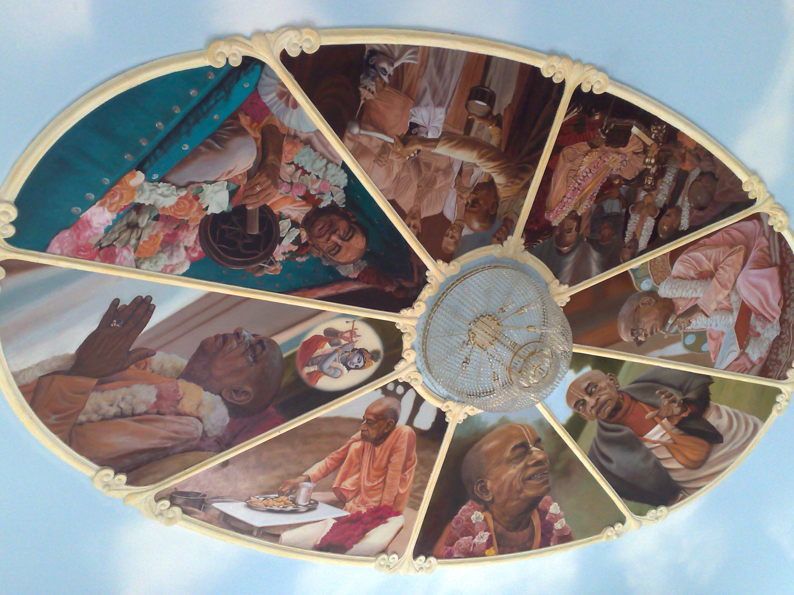 Prabhupada desh, Hare Krishna temple in Vicenza, with Srila Prabhupada paintings